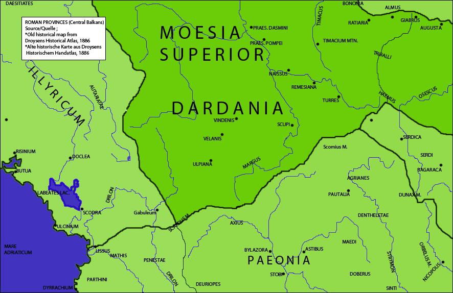 Dardania inside the Roman province of Moesia Superior,Recreated from part of Old historical map from Droysens Historical Atlas, 1886